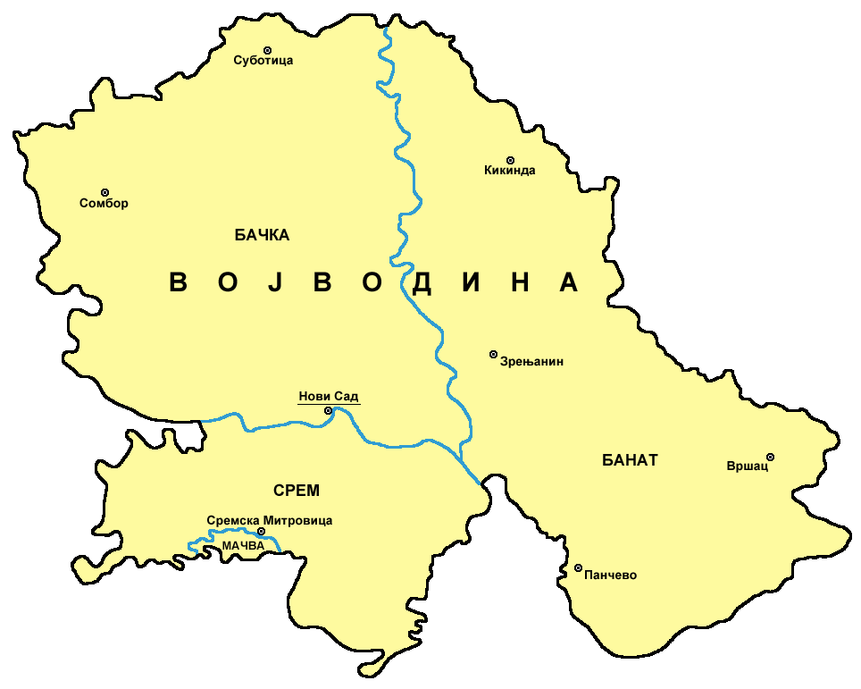 Map of Vojvodina - Serbian language Cyrillic version